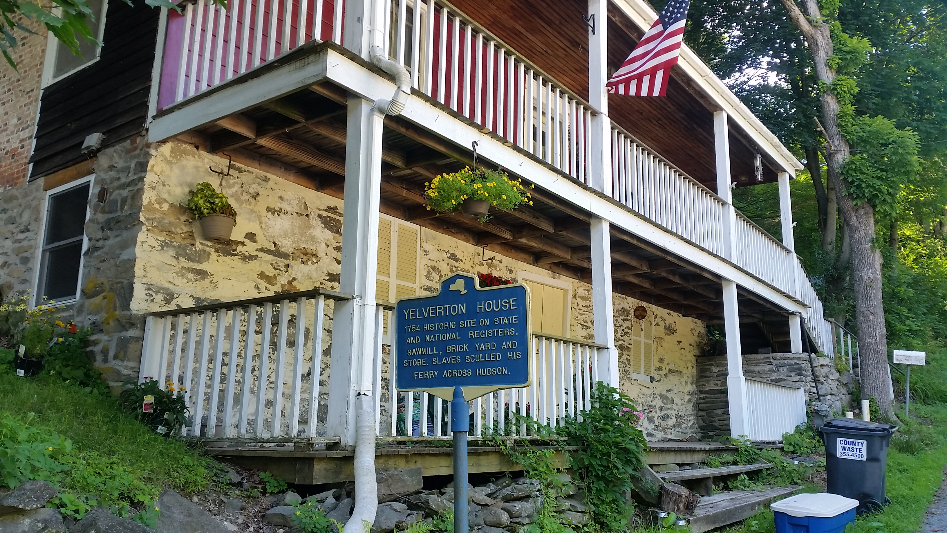 NY State historical marker for the Anthony Yelverton House, a house listed on the National Register of Historic Places. The house is in Highland (aka Lloyd) NY